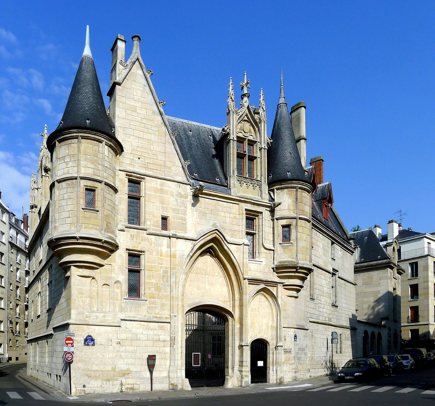 Hôtel de Sens - Paris